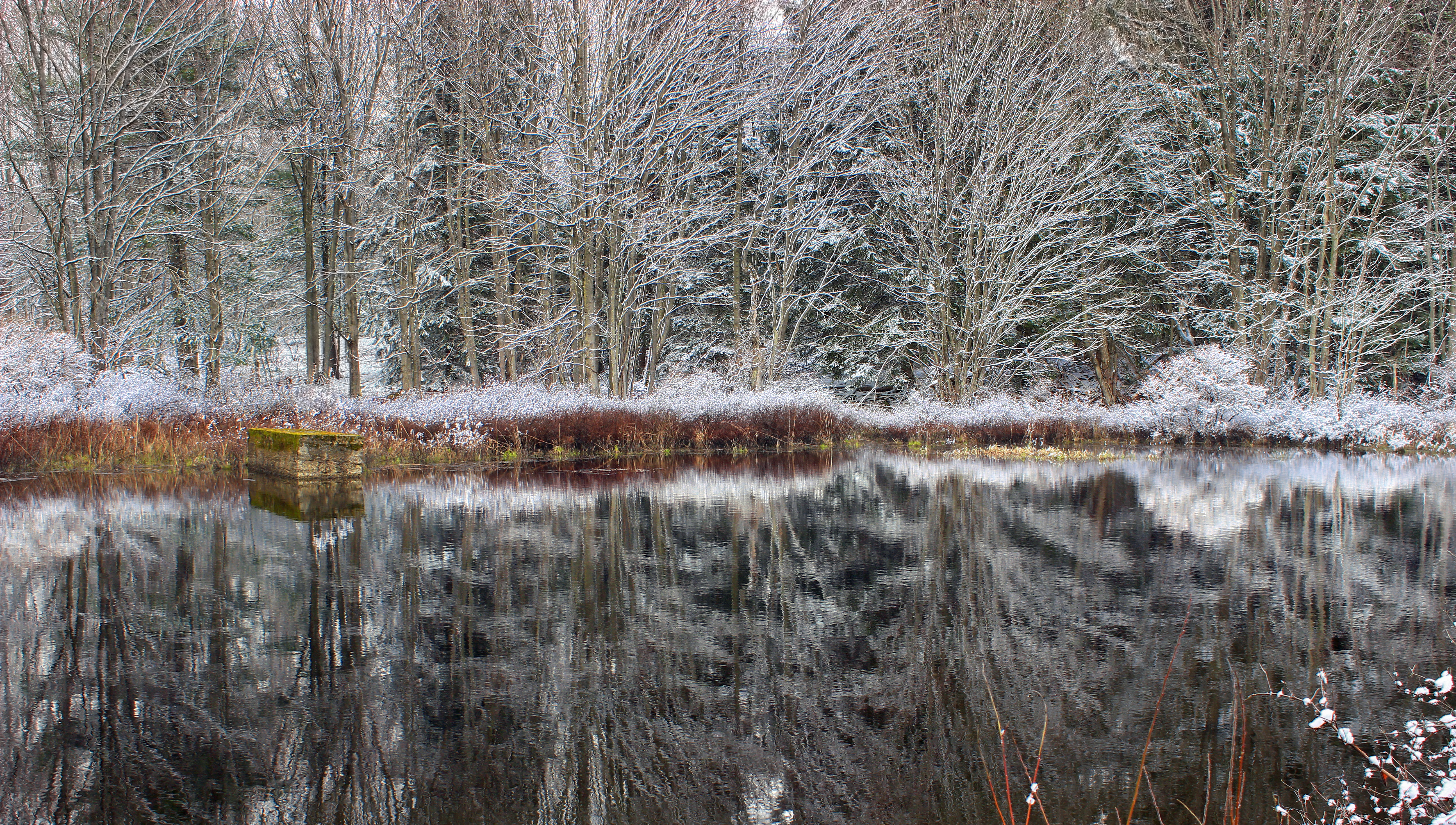 Fishing pond along the east shore of Gouldsboro Lake, Monroe and Wayne Counties, within Gouldsboro State Park. I've licensed this photo as Creative Commons Zero (CC0) for release into the public domain. You're welcome to download the photo and use it without attribution.